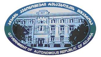 Adjara government official logo